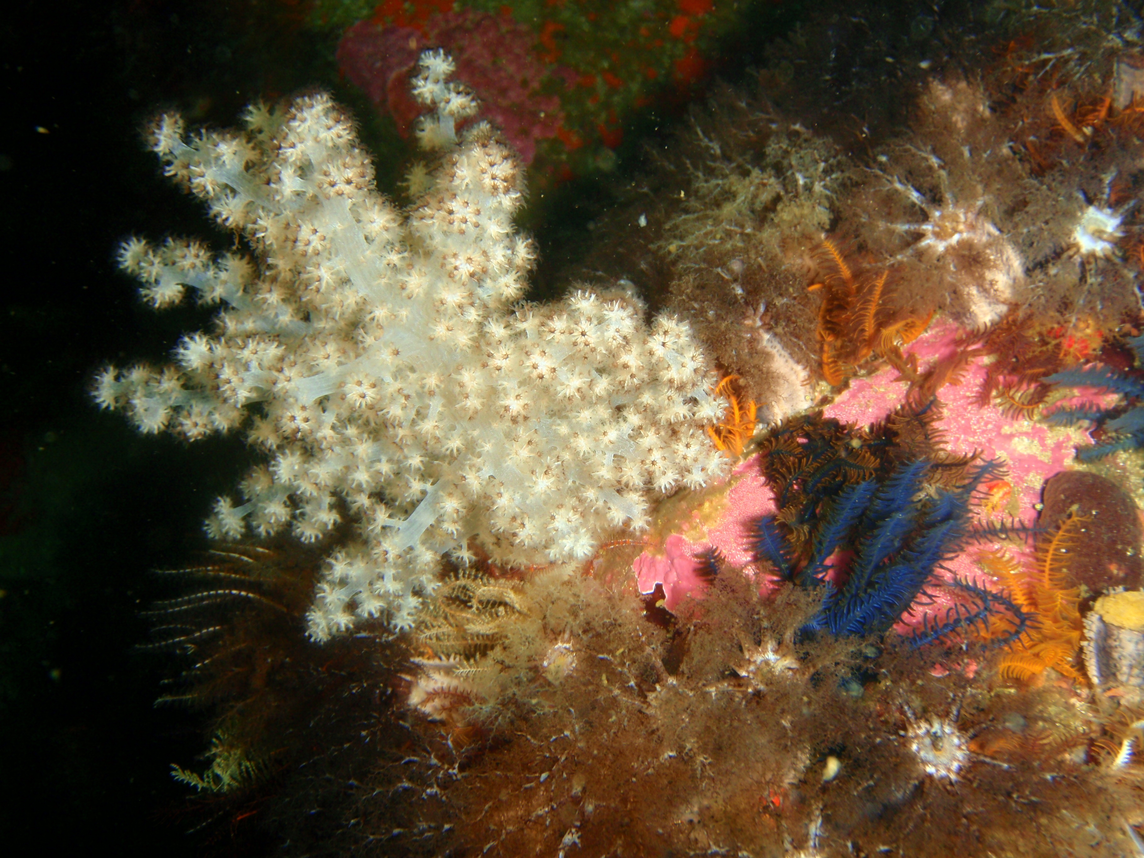 Cauliflower soft coral at Rambler Rock south reef